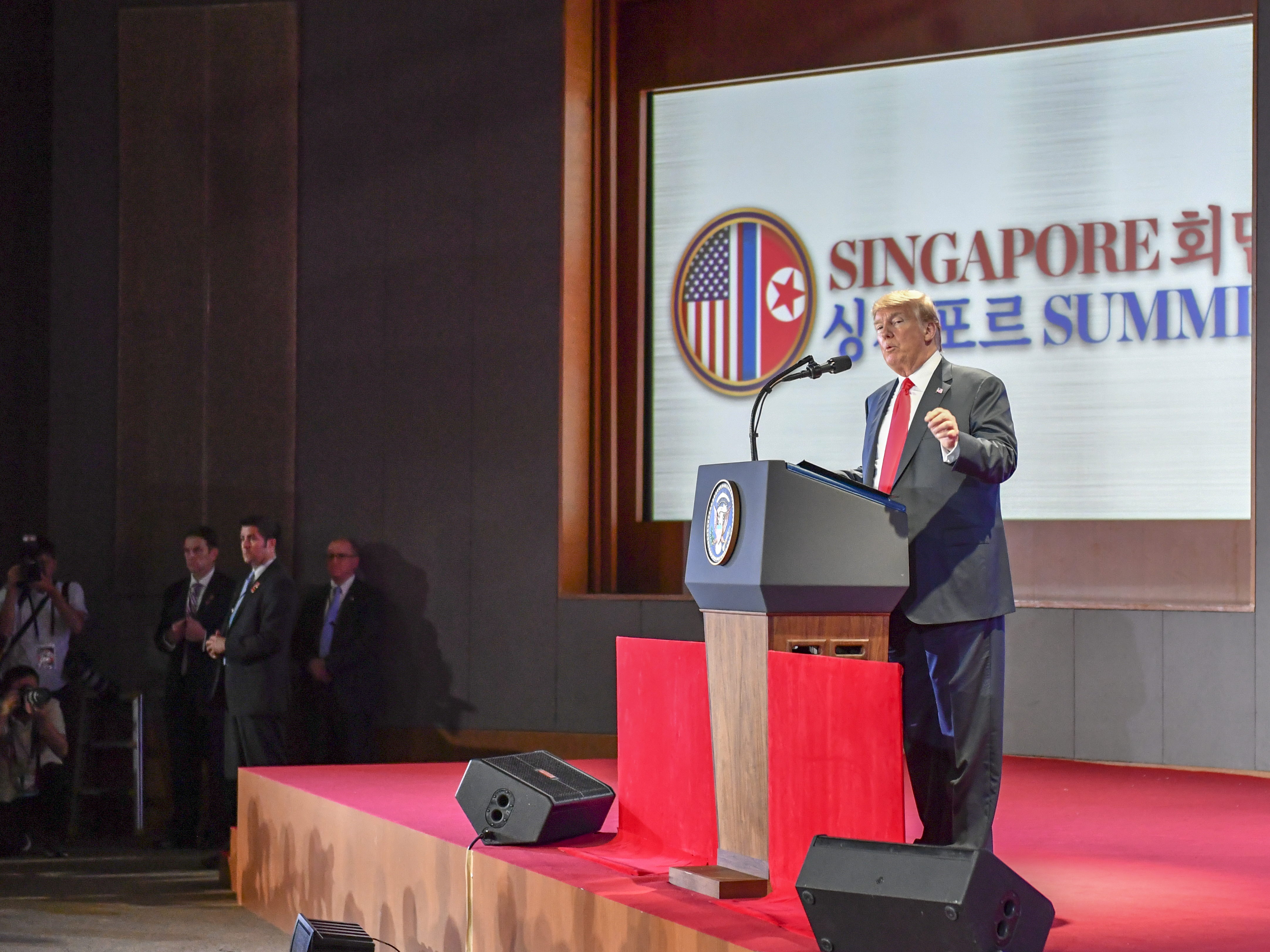 President Donald Trump addresses the press following the Singapore Summit in Singapore on June 12, 2018. [State Department photo/ Public Domain]